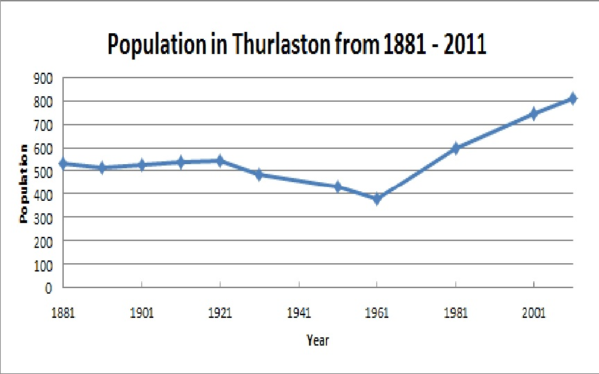 Final Pop Graph